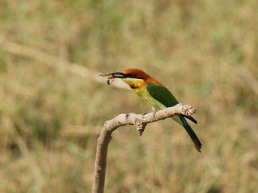 Taken at Khao Yai National Park.